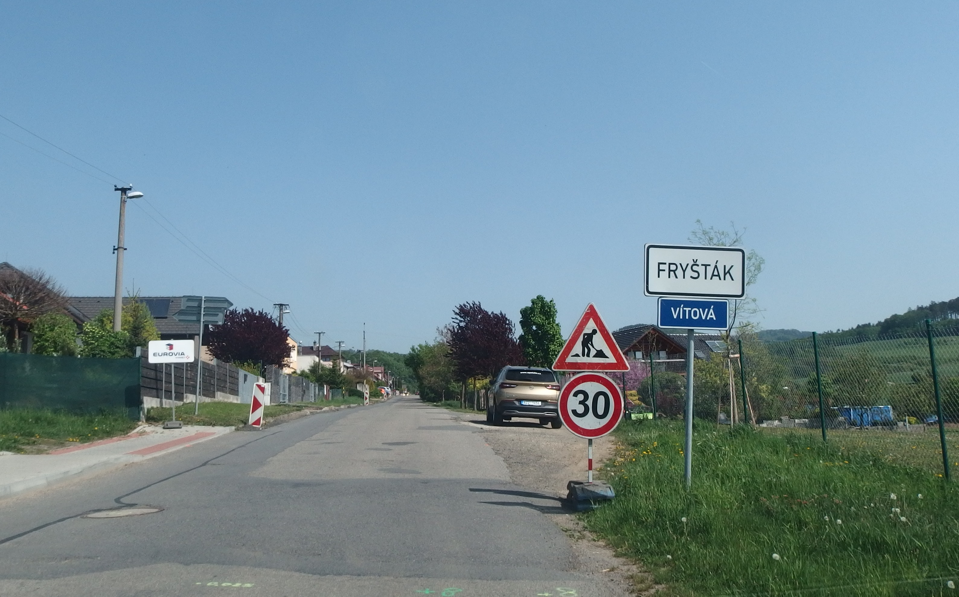 Fryšták, Zlín District, Czech Republic, part Vítová.